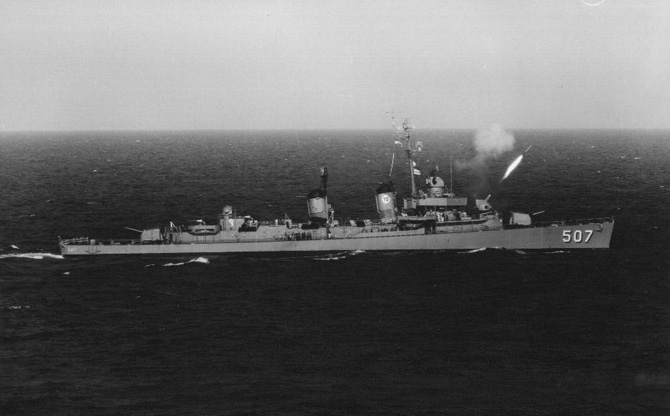 The U.S. Navy destroyer USS Conway (DD-507) launches a RUR-4 Weapon Alpha.